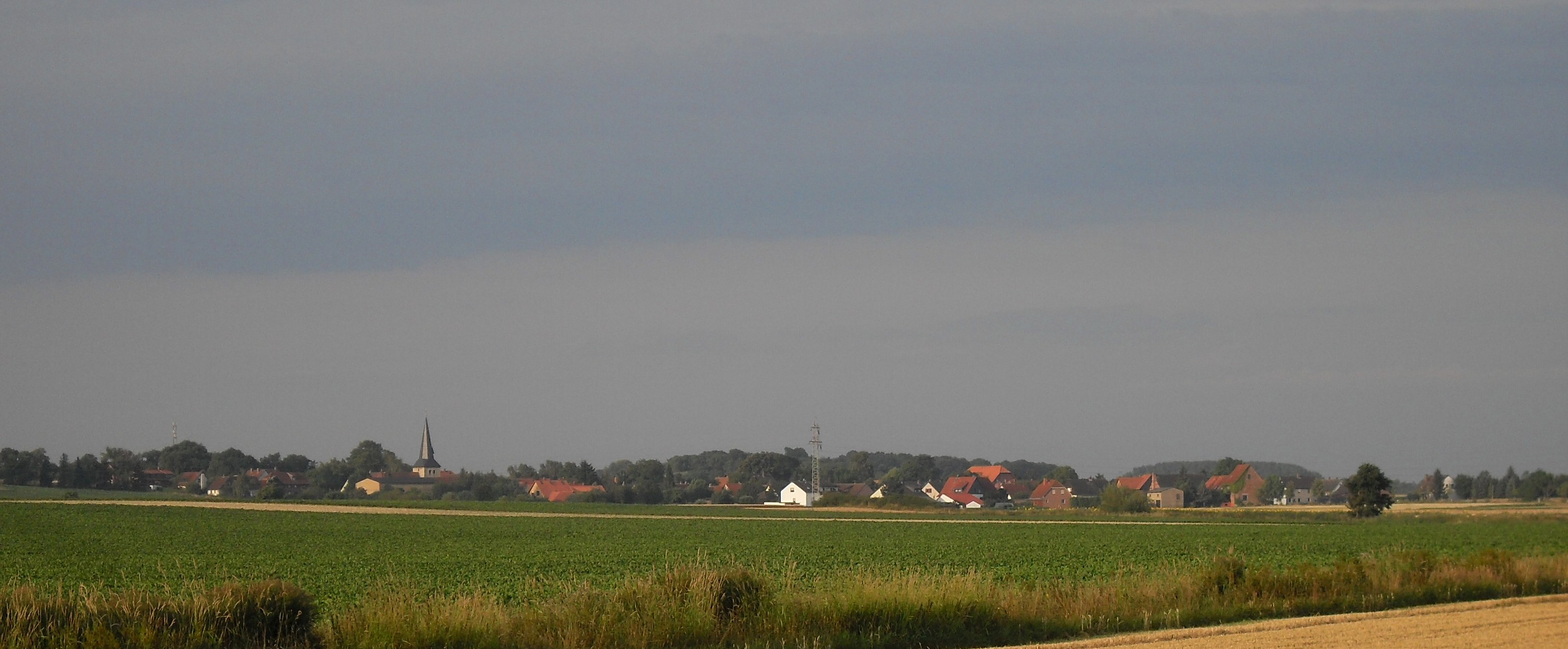 panoramic viewon Gardessen from the north